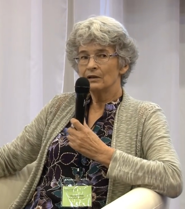 American intelligence researchers and former presidents of the International Society for Intelligence Research: Linda Gottfredson interviewed by David Lubinski Saint Petersburg July 15, 2016